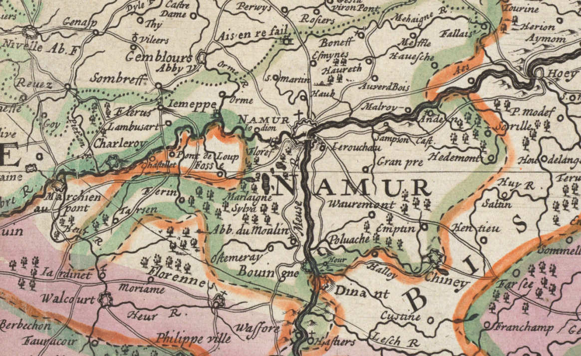 Detail of the 1690 map "The Spainish Netherlands..." by Herman Moll. It shows the city of Namur and the surrounding region, where the battles of the siege of Namur (1692) occurred.